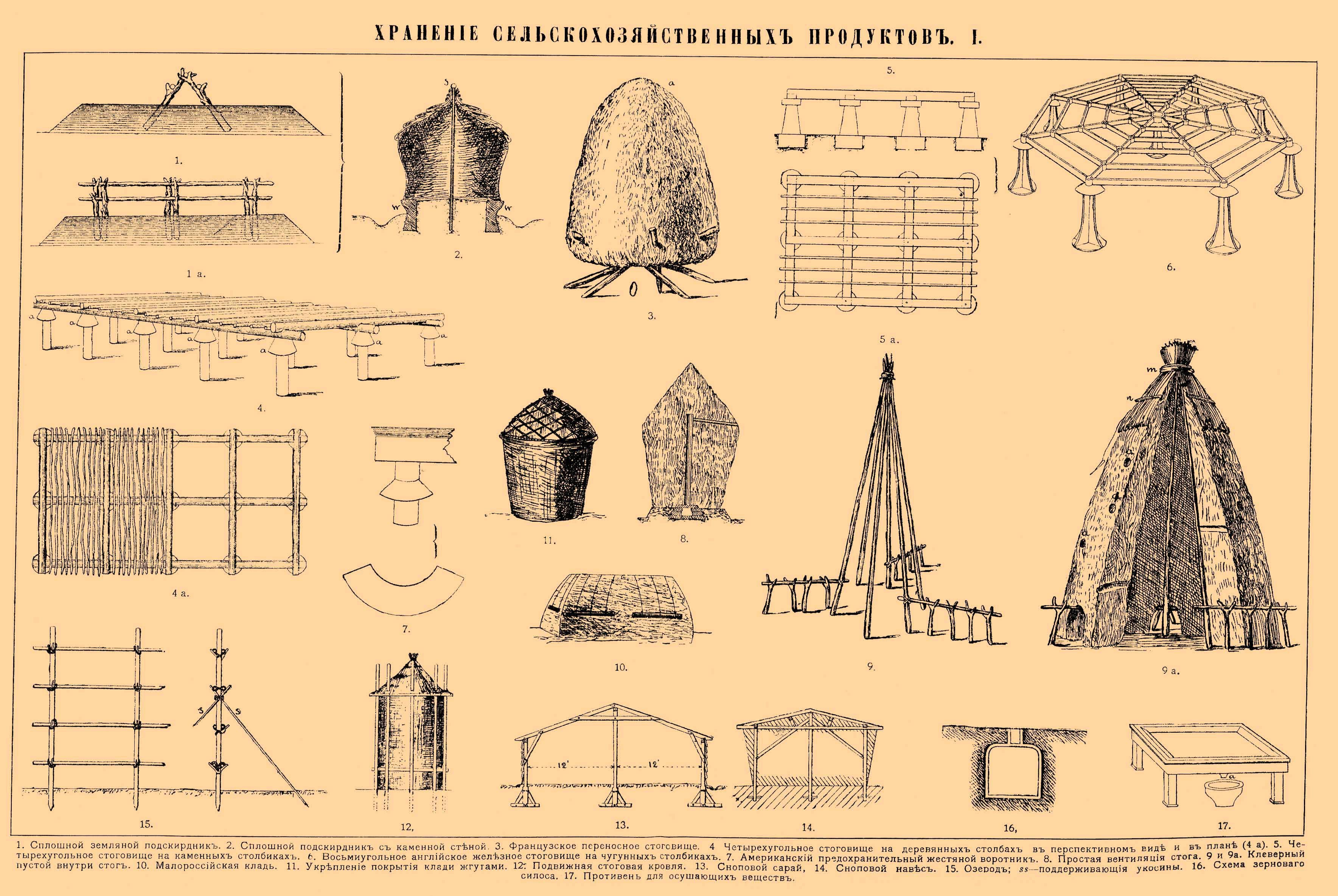 Illustration from Brockhaus and Efron Encyclopedic Dictionary (1890—1907)